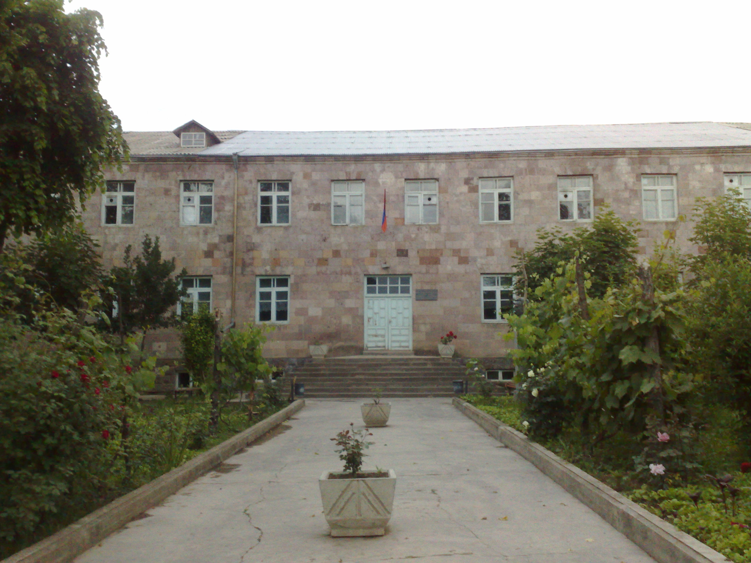 School in Norashen village of Tavush province of Armenia.